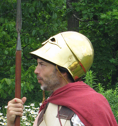 Photo by Chris Cameron of Chris Cameron in hoplite armor